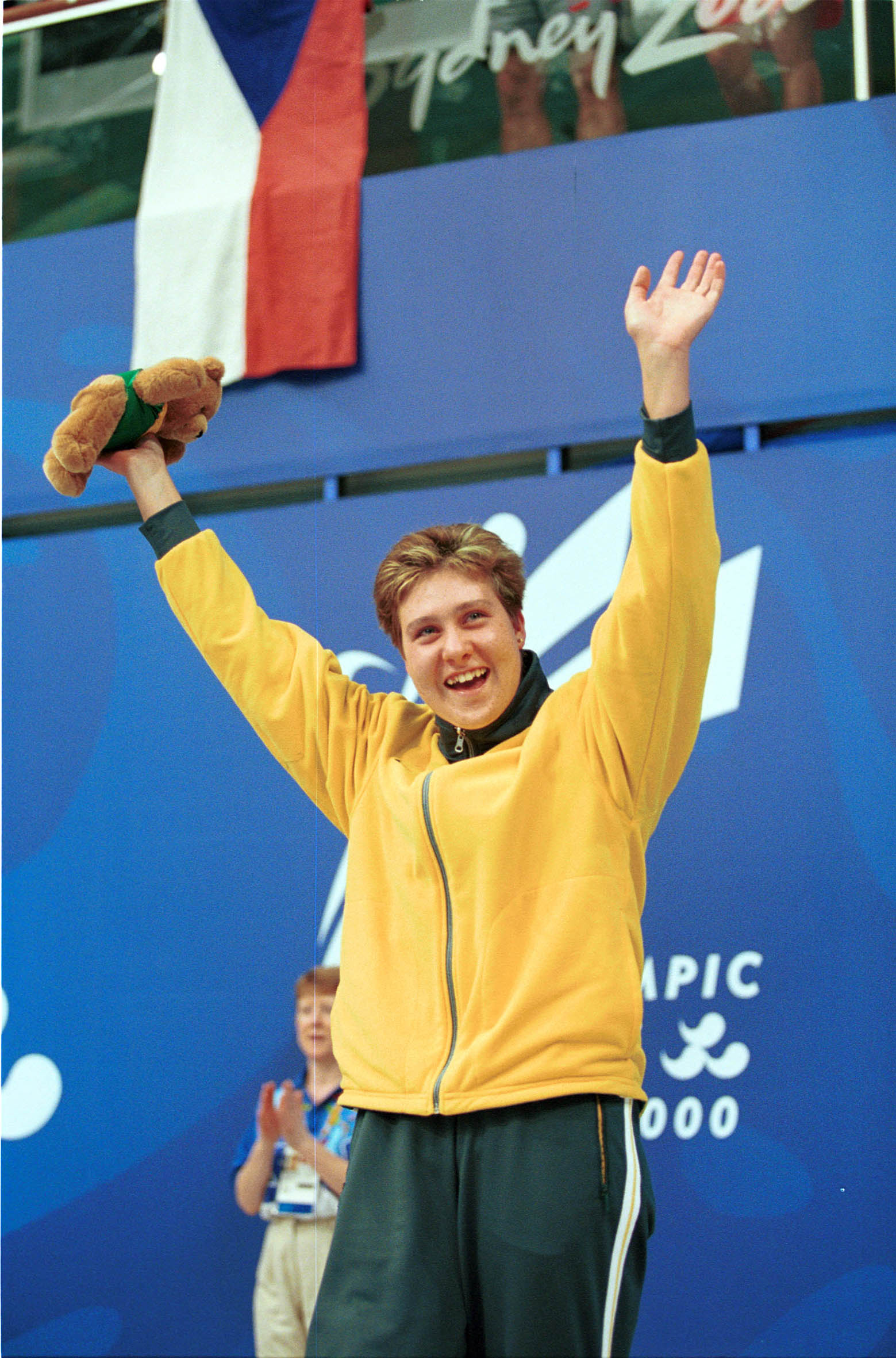 Australian swimmer Alicia Aberley waves to the crowd to celebrate her bronze medal win on day 2 of the 2000 Sydney Paralympic Games. Aberley won two bronze medals at these games.